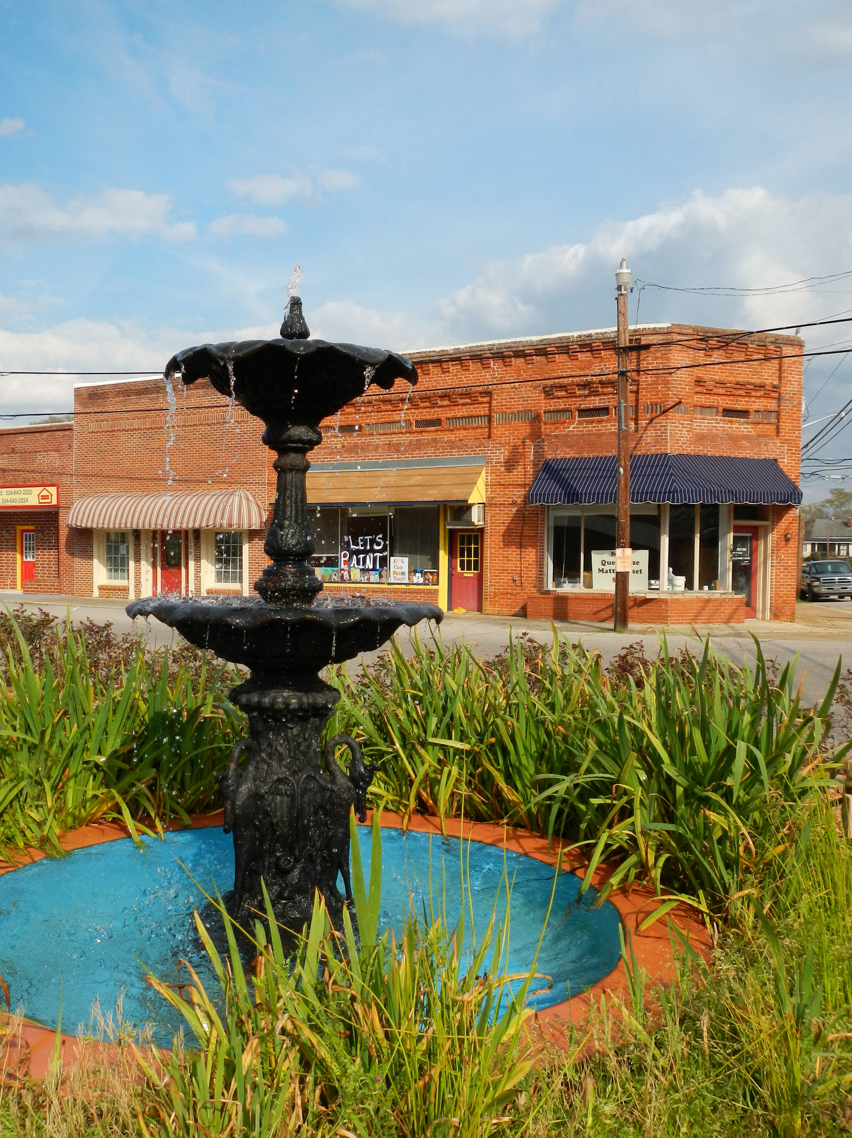 This is a photo of Lanett, Alabama.